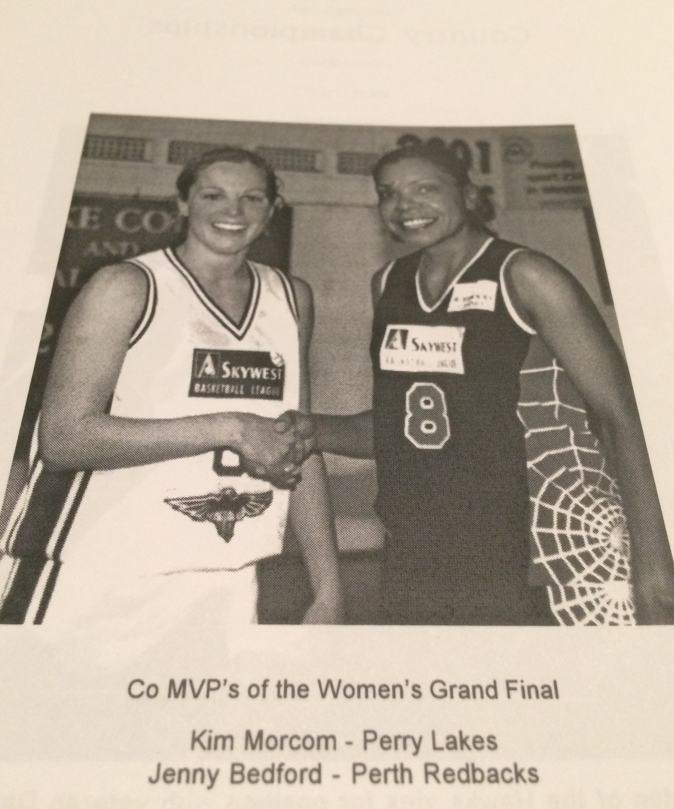 2001 WSBL Grand Final Co-MVPs, Kim Morcom (Hawks) and Jenny Bedford (Redbacks) Photo located on page 36 of Basketball WA's 2001 Annual Report